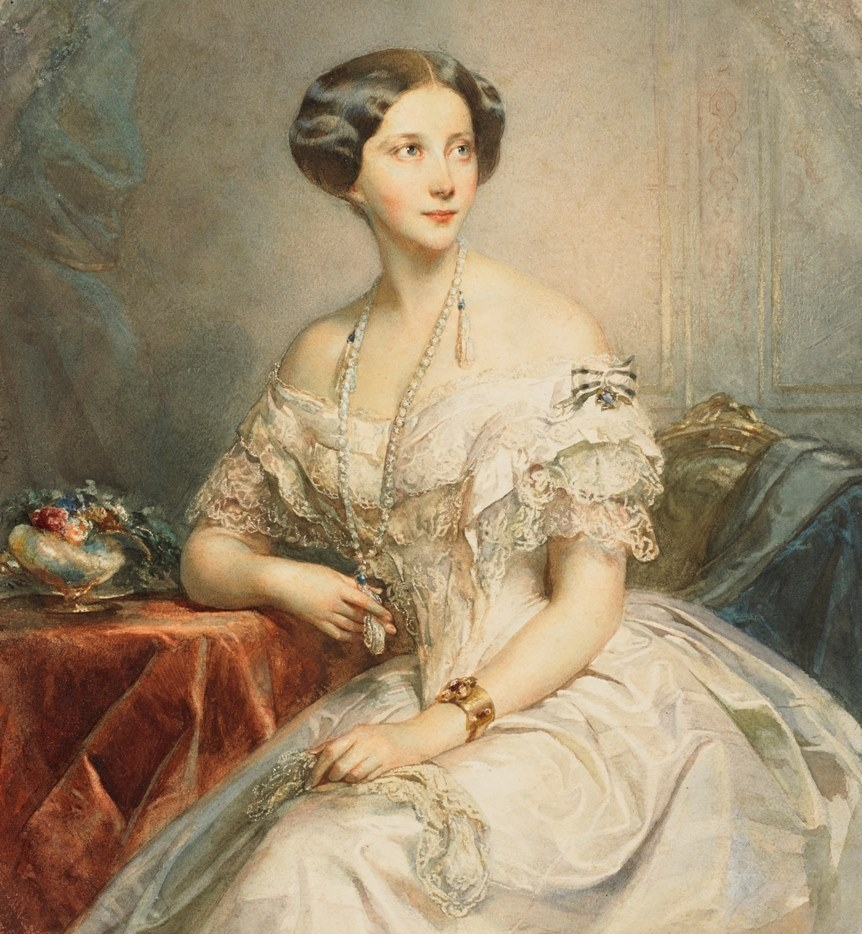 Landgravine and Princess Anne of Hesse-Cassel (1836–1918), née Princess of Prussia.